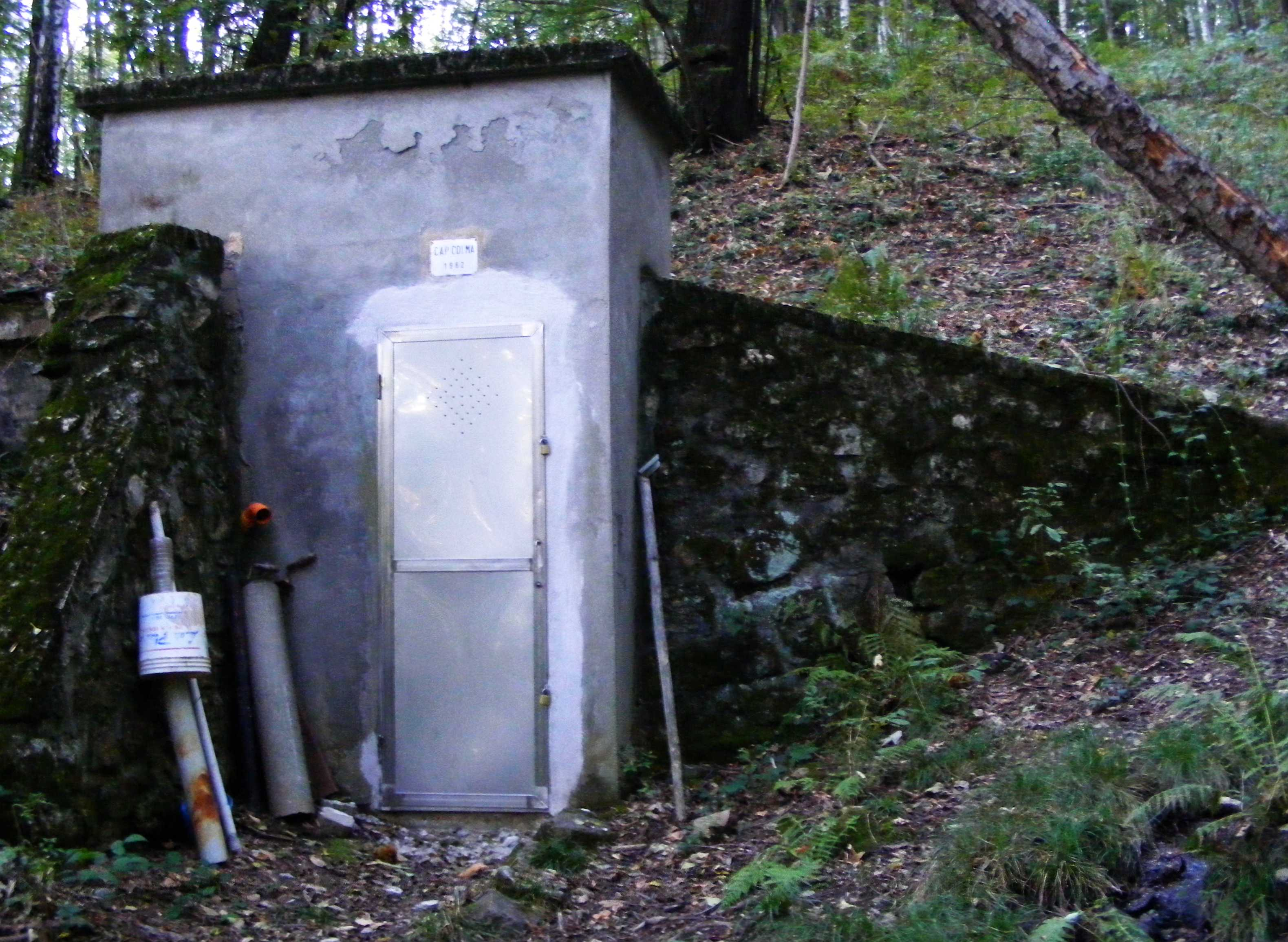 Aqueduct of Colma di Biella (BI, Italy): water-catching building